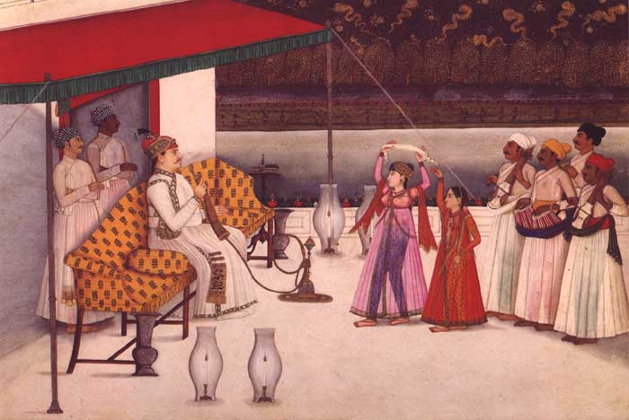 $Col. Polier's Nautch (Lucknow, c.1780), painted by Mihr Chand; *source notes*$